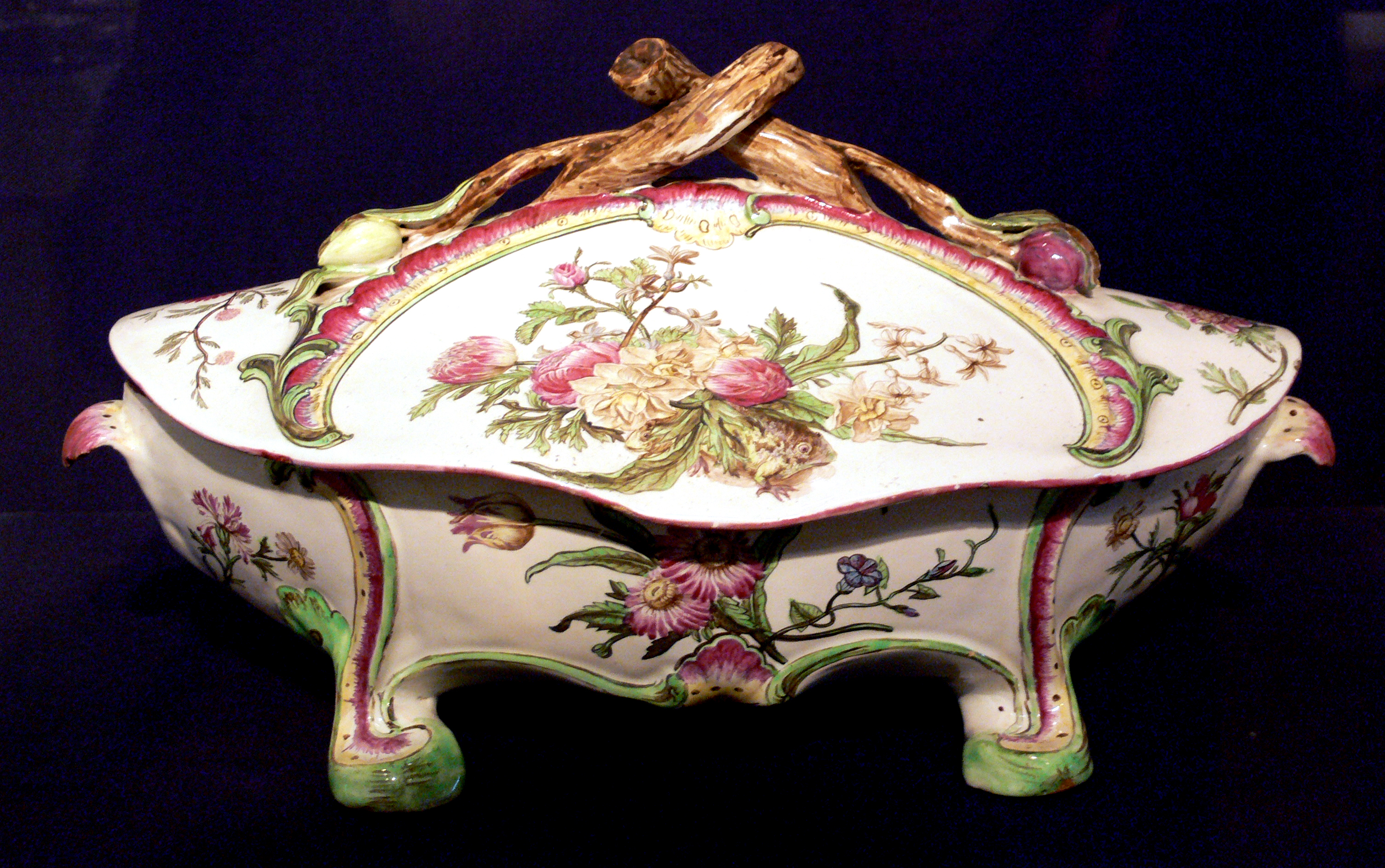 Tureen; unknown manufacturer, Marseille c. 1770; faience, width: 39.4 cm; Dallas Museum of Art, Dallas, Texas; Dallas Museum of Art, gift of David T. Owsley via the Alvin and Lucy Owsley Foundation in honor of Lucy Ball Owsley; object number 1997.46.A-B